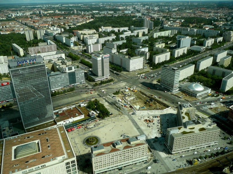 Alexanderplatz is a large open square and public transport hub in Berlin city centre, near the river Spree and the Berliner Dom. Berliners often call it simply Alex. Originally a cattle market, it was named in honour of a visit of the Russian Emperor Alexander I to Berlin on 25 October 1805. It gained a prominent role in the late 19th century with the construction of the station of the same name and a nearby public market, becoming a major commercial centre. Its heyday was in the 1920s, when together with Potsdamer Platz it was at the heart of Berlin's nightlife, inspiring the 1929 novel Berlin Alexanderplatz (see 1920s Berlin) and the two films based thereon, Piel Jutzi's 1931 film and Rainer Werner Fassbinder's 15 1/2 hour second adaptation, released in 1980.